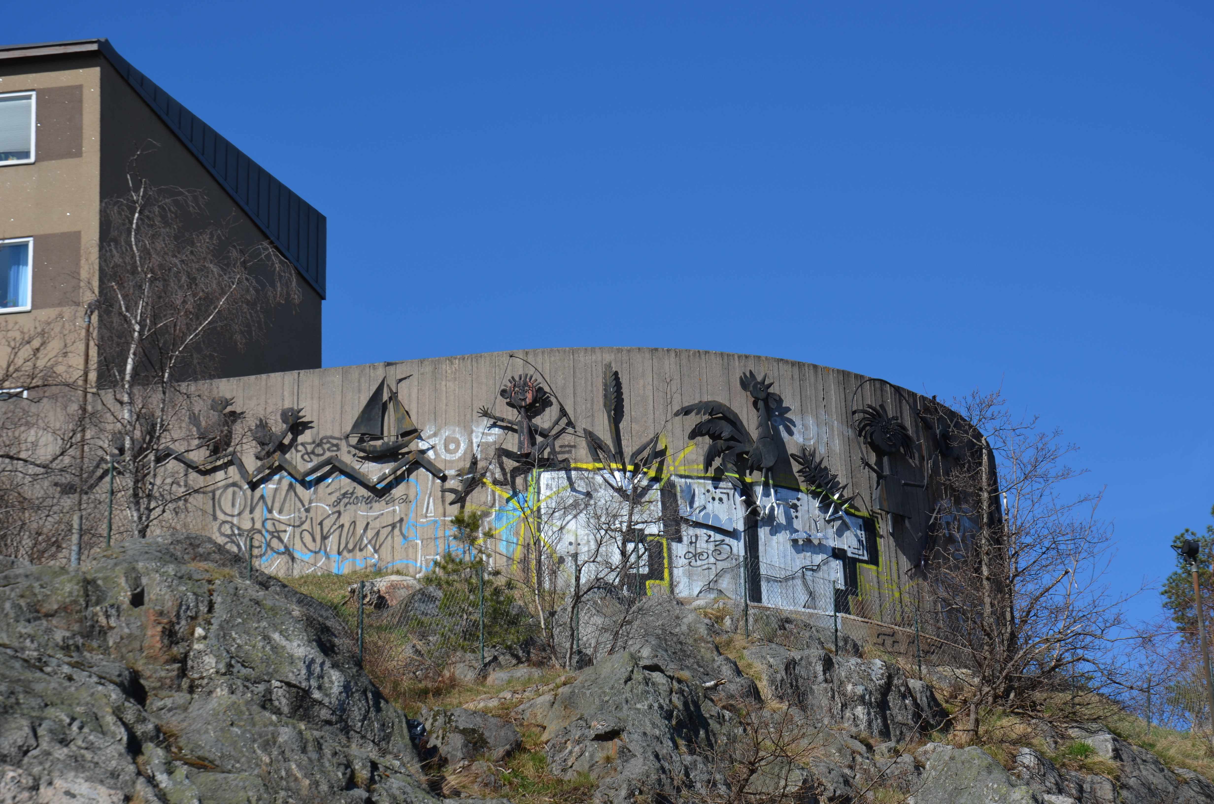 Sivert Rapp's Sommarlov, Bredäng, Stockholm, Sweden